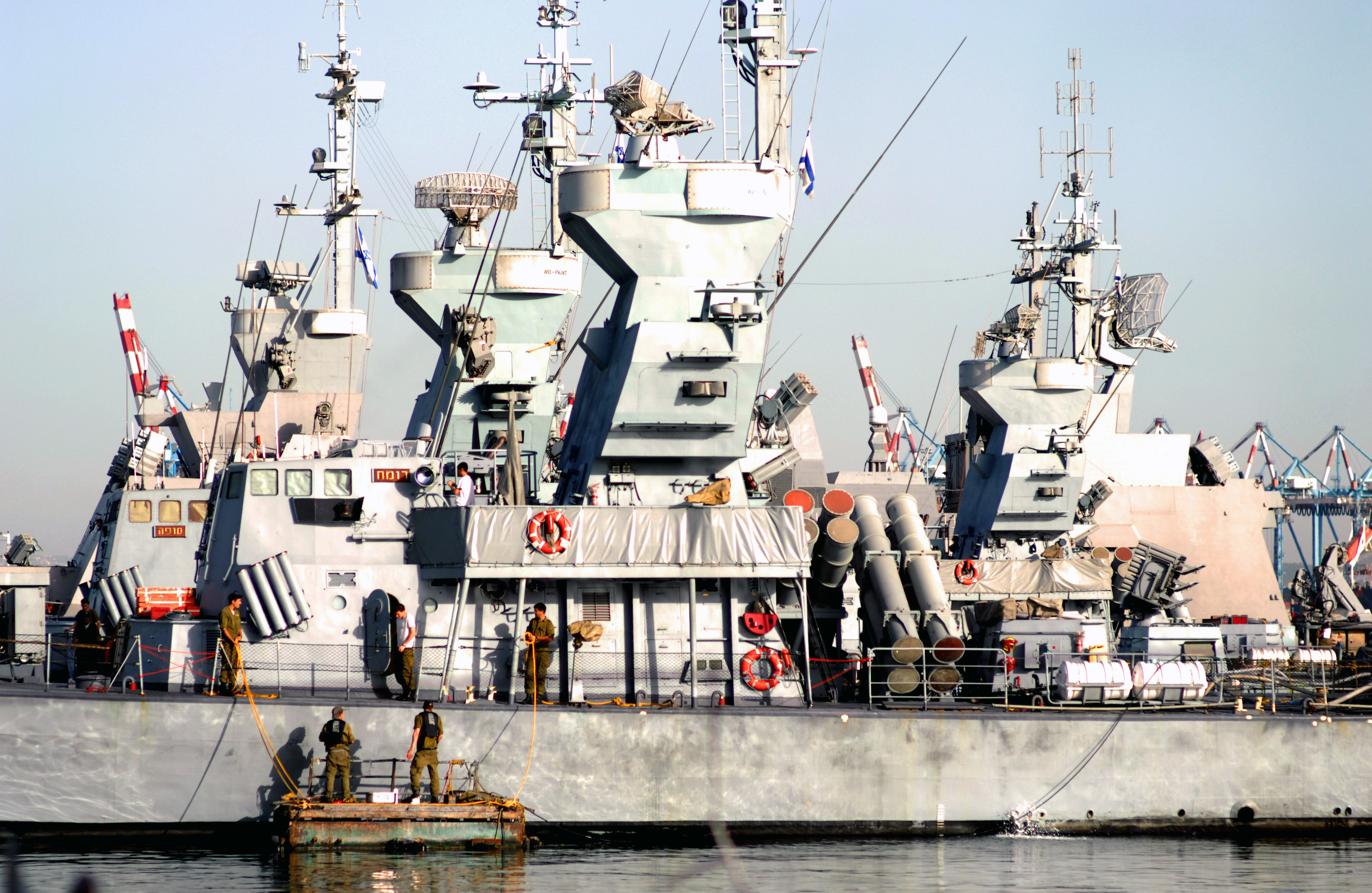 Sa'ar 4.5 (Nirit-class) missile boats of the Israeli Sea Corps